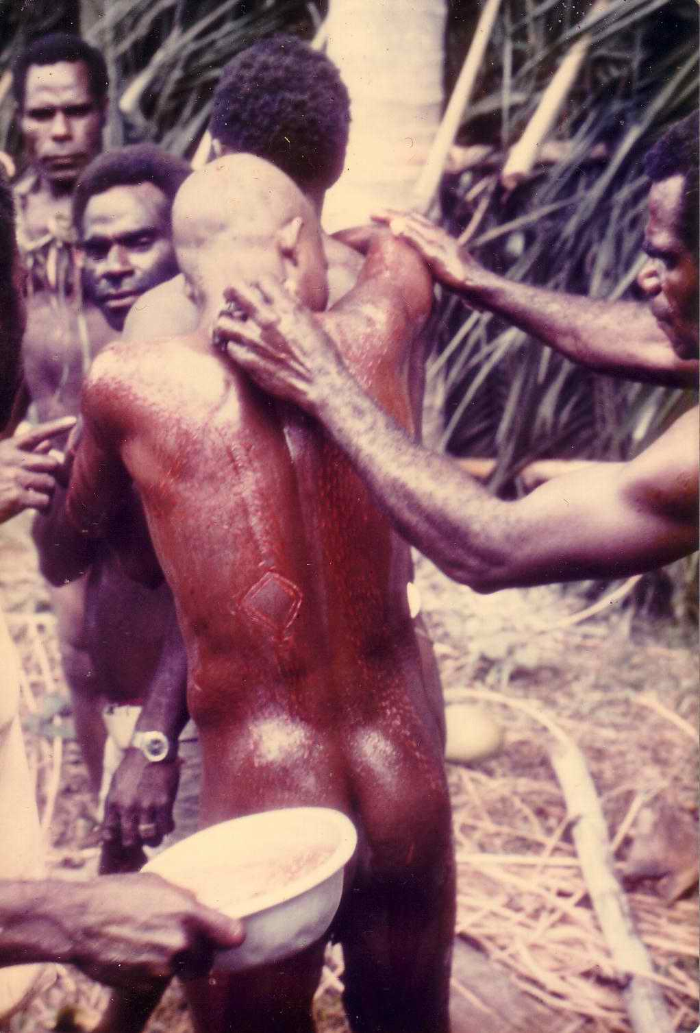 This photo was taken in Papua New Guinea by Franz Luthi in 1975. He has given me (John Hill) written permission to use it in the Wikipedia free of copyright.